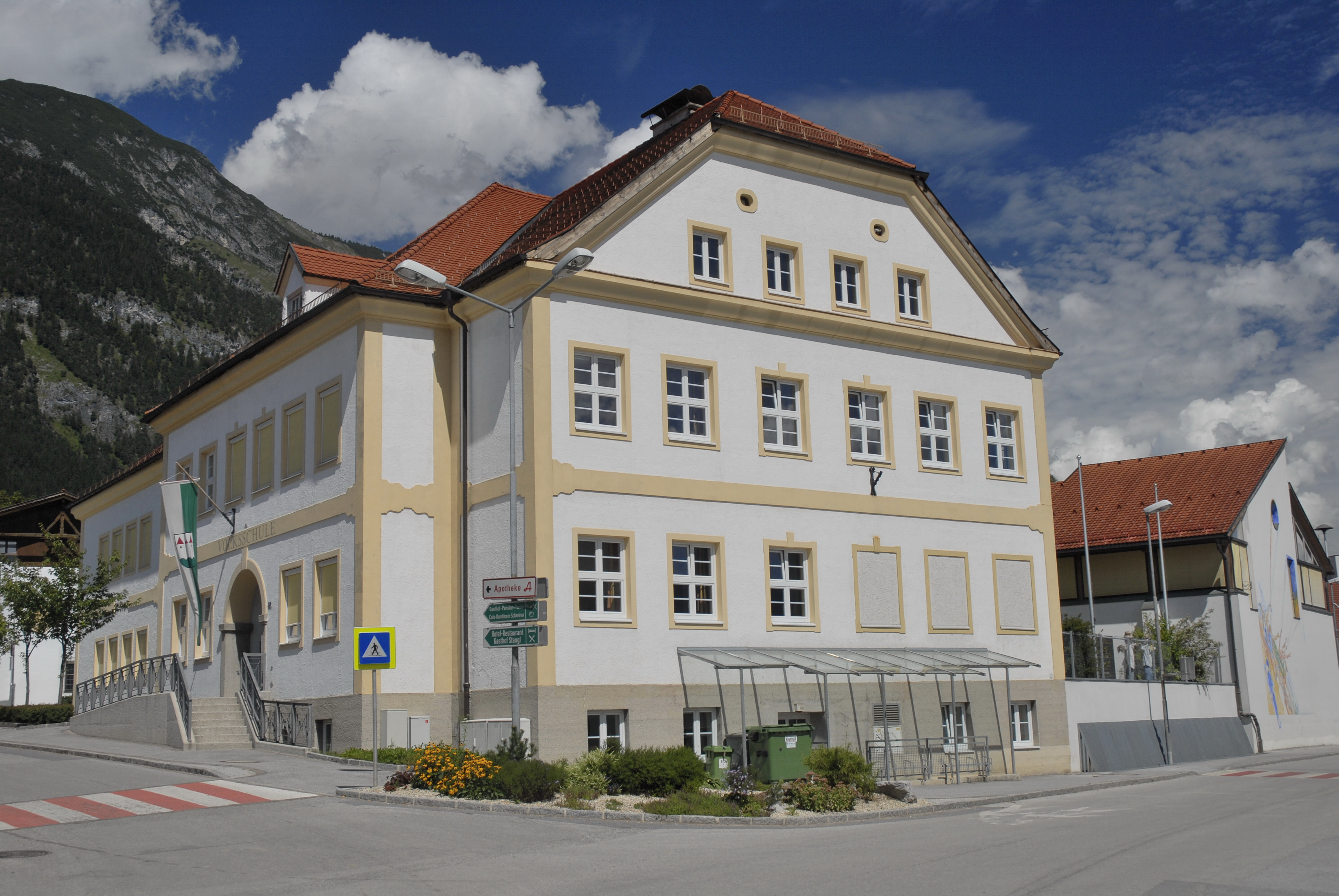 Volksschule Thaur This media shows the remarkable cultural object in the Austrian state of Tyrol listed by the Tyrolean Art Cadastre with the ID 61672. (More images on Commons)